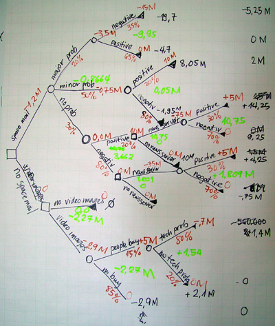 A manually drawn decision tree diagram drawn on a flip chart